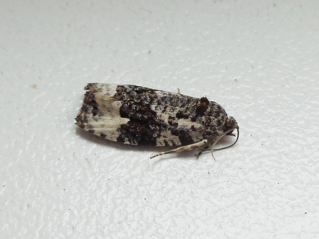 Apotomis turbidana. Found in Rīga town, Latvia